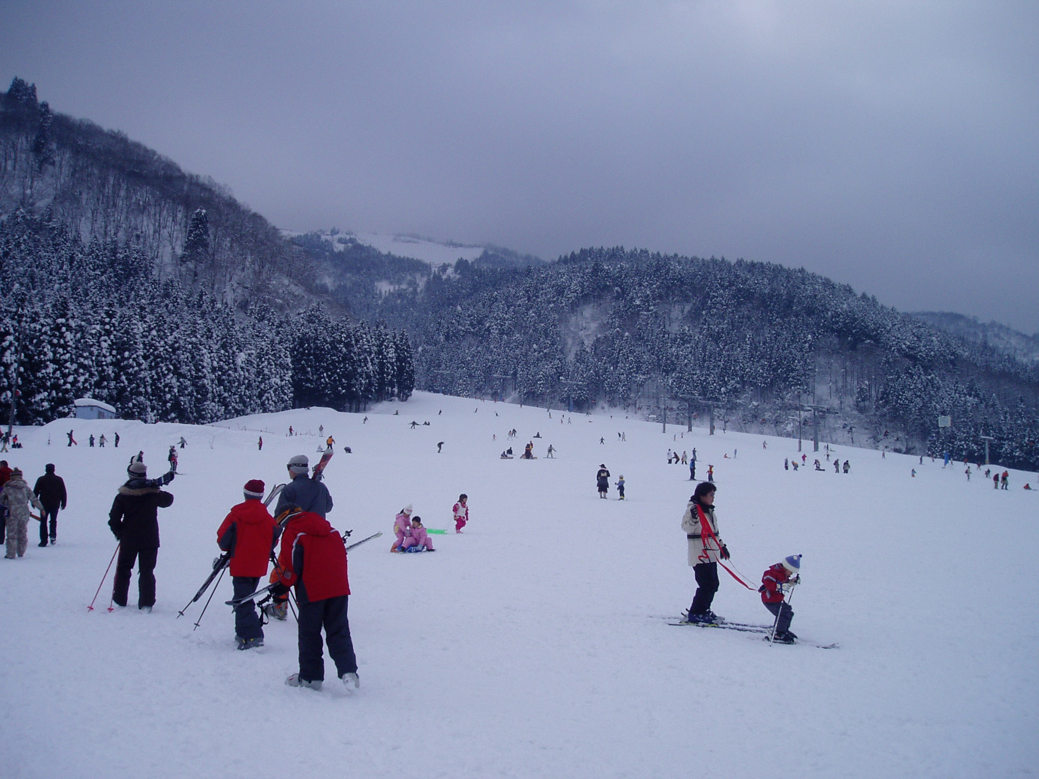 Tateyama Sanroku Ski Area, Toyama, Japan.